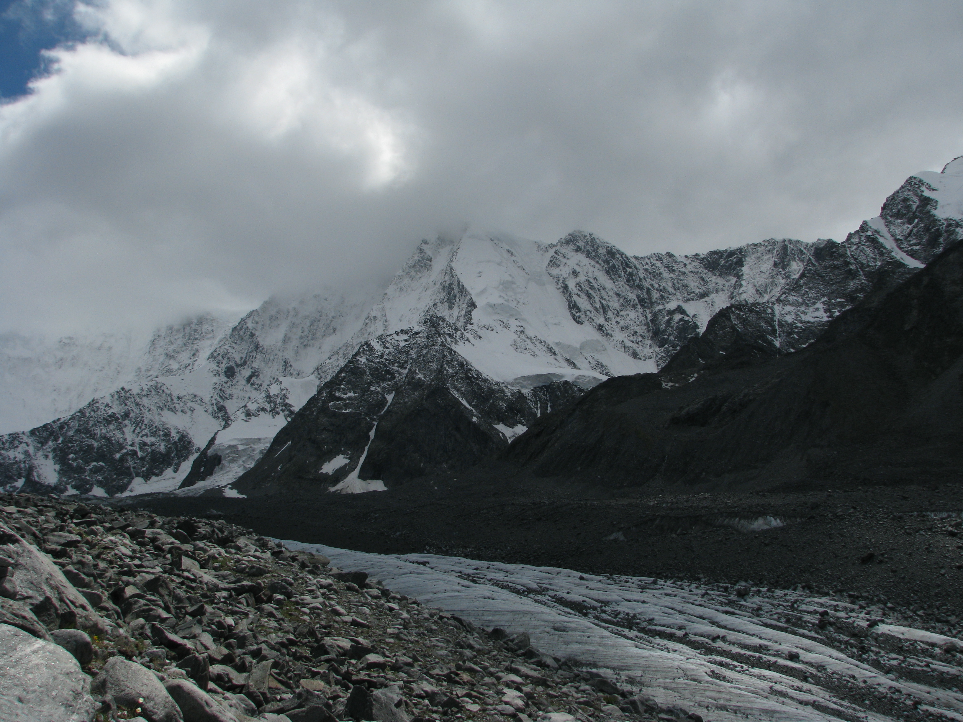 Akkem